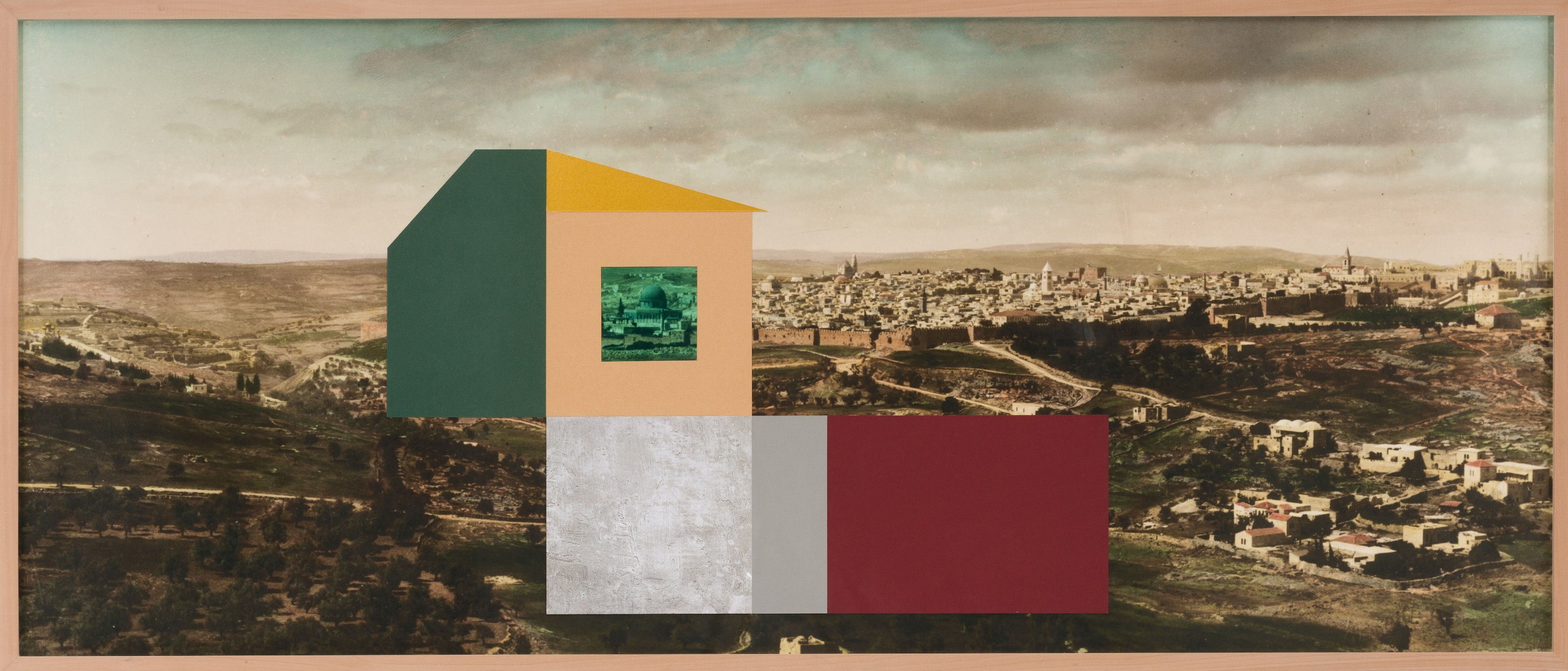 For the Love of Jerusalem, Hazem Harb, 2017 Permanent Collection: Centre Pompidou Paris